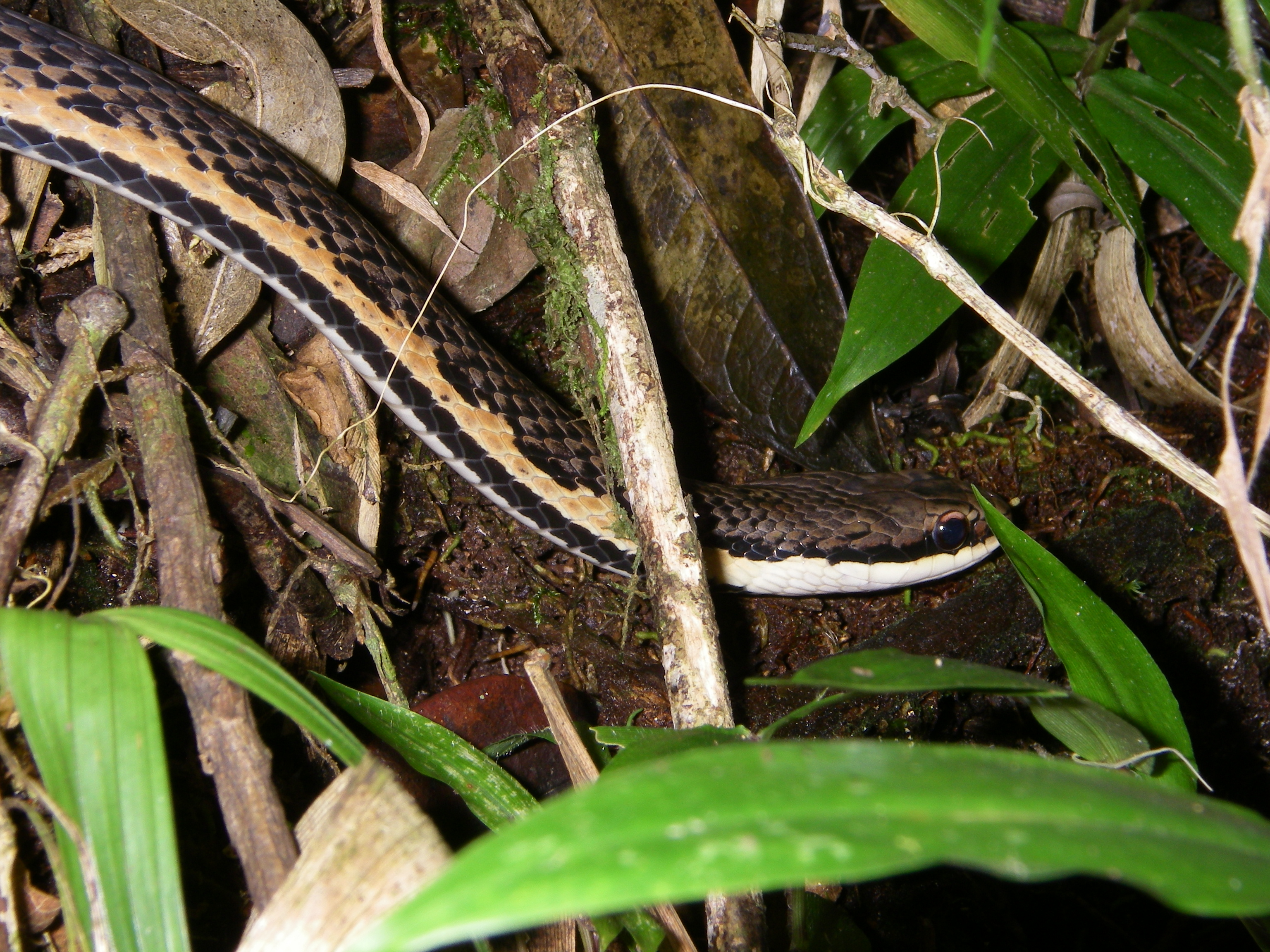 Liopholidophis dolicocercus; Vatoharanana, Ranomafana National Park, Madagaskar